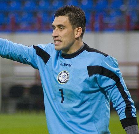 David Loria in Kazakhstan national football team